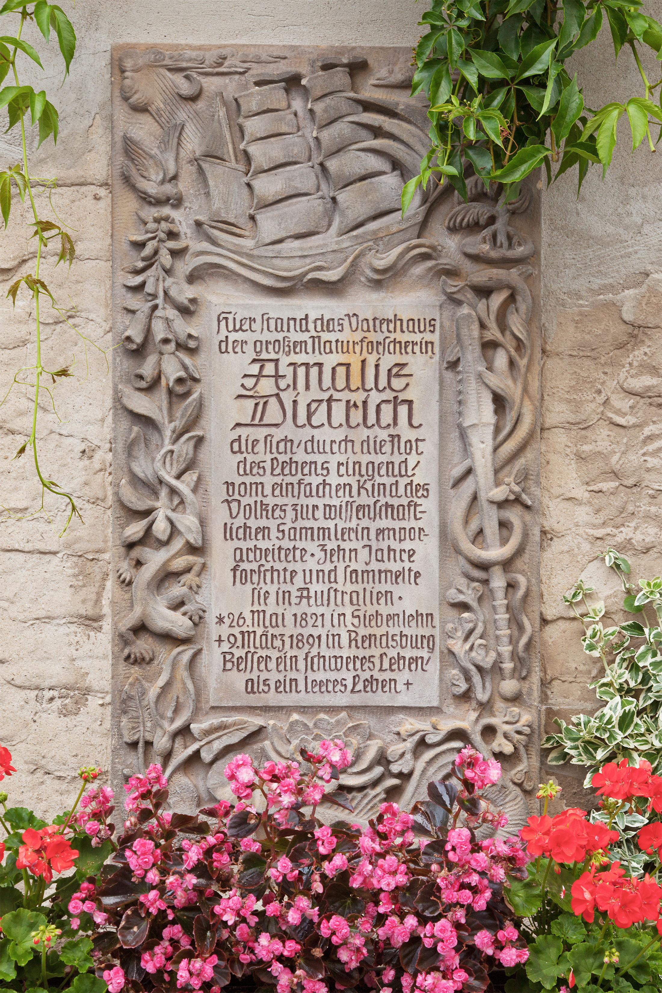 Plaque to commemorate Amalie Dietrich in Siebenlehn, Saxony